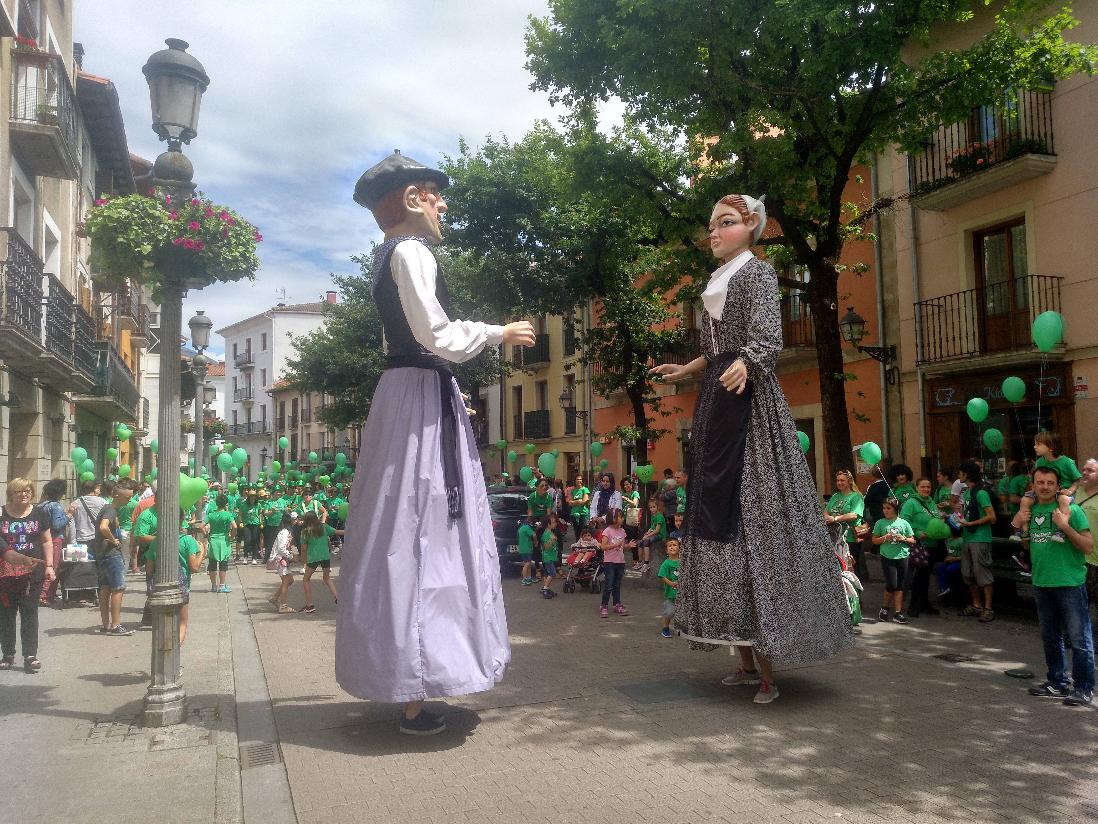 Gigantes y cabezudos from Aretxabaleta